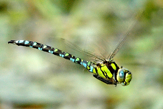 Picture taken in Commanster, Belgian High Ardennes . Please contact James Lindsey when you think this is a different taxon. James Lindsey, the copyright holder of this work, hereby publishes it under the following licenses: Attribution: James Lindsey at Ecology of Commanster